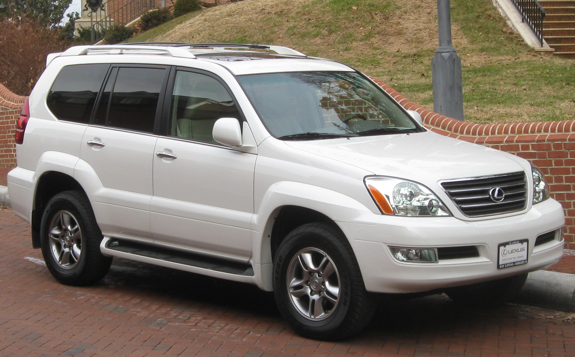 2008-2009 Lexus GX470 photographed in Annapolis, Maryland, USA.